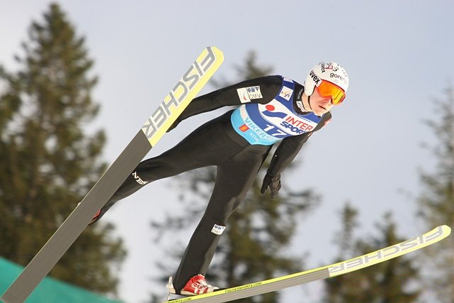 Jurij Tepeš during saturday individual competition of FIS Ski-Flying World Championships 2012